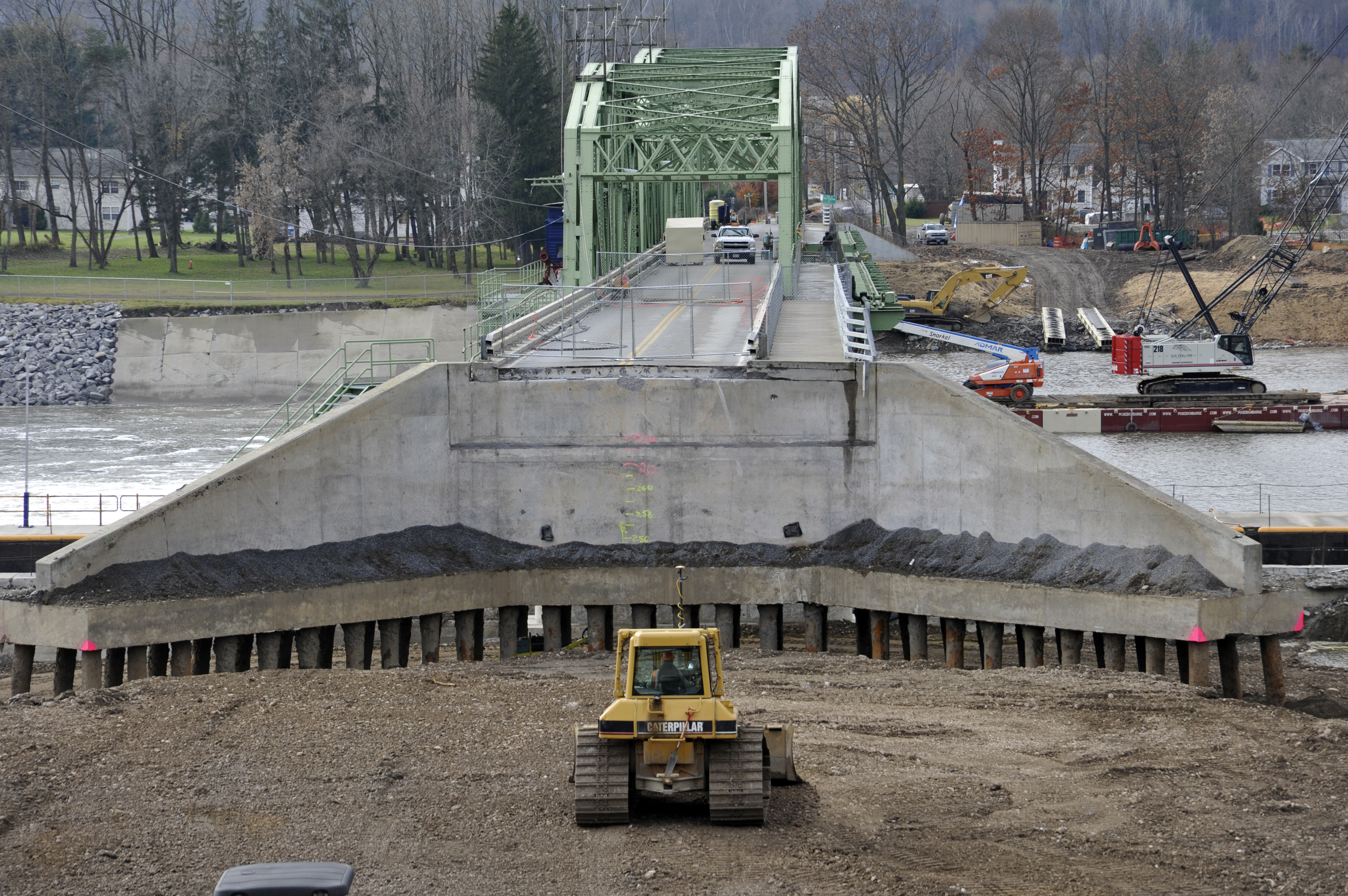 The alignment of what used to be NY 103 heading southbound from NY 5 in November 2011, during reconstruction of the roadway was completed from damage from Hurricane Irene and Tropical Storm Lee.